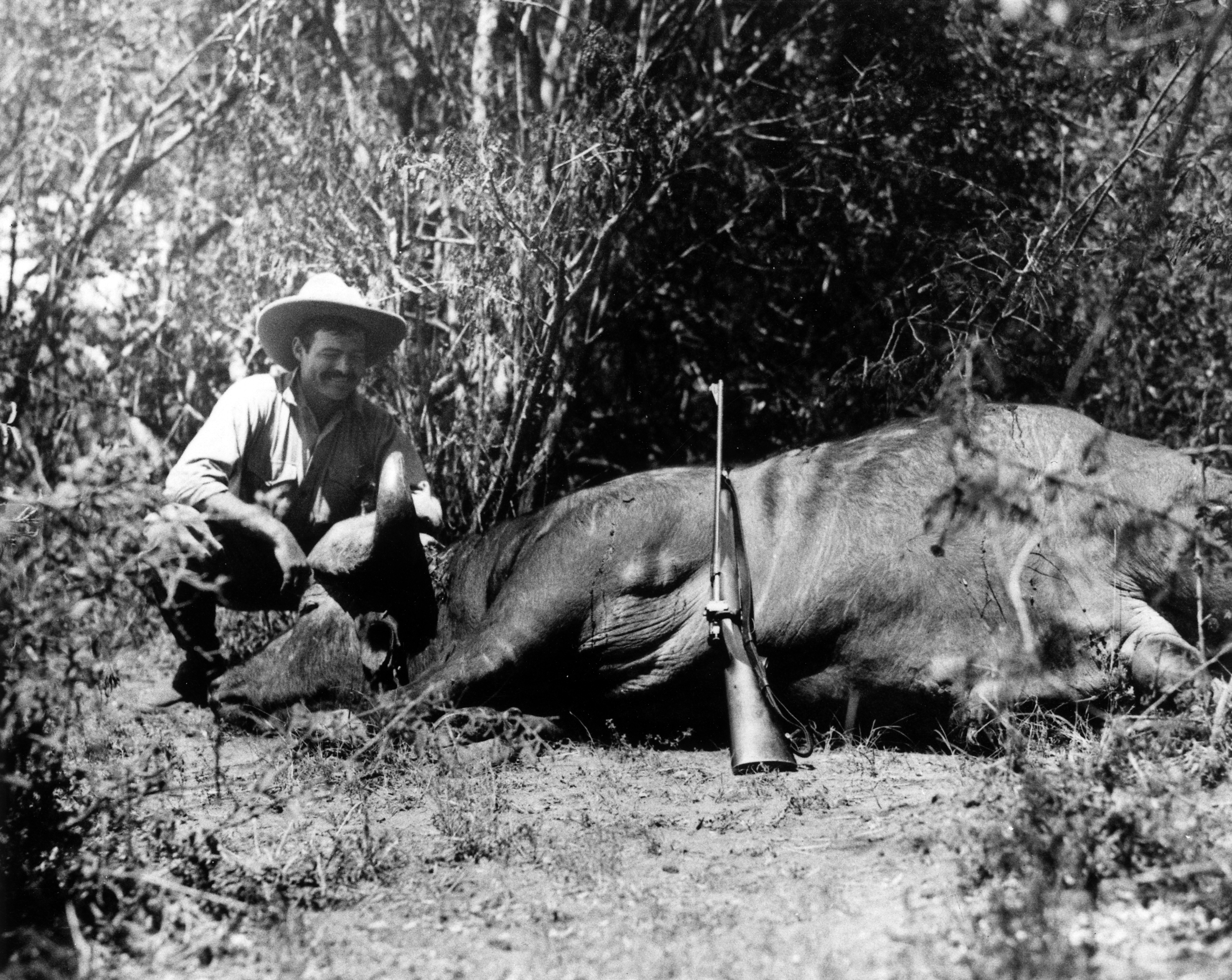 Photograph of Ernest Hemingway on safari in Africa after making a kill.